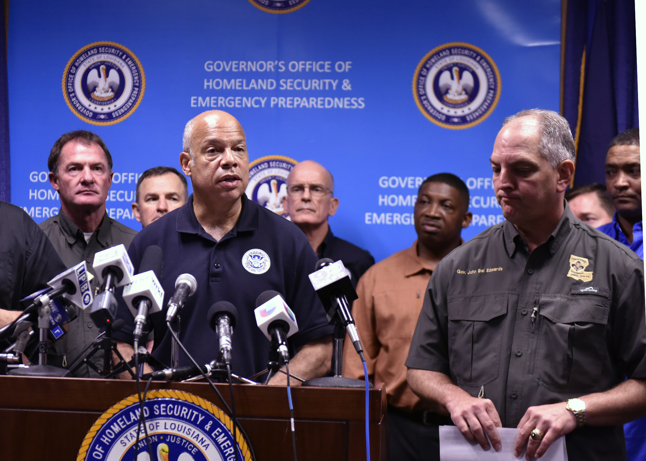 Baton Rouge, La. - Secretary of Homeland Security Jeh Johnson and Deputy Administrator of Federal Emergency Management Agency Joseph Nimmich meet with state and local officials and observes response and recovery efforts in areas of Baton Rouge, Louisiana affected by severe flooding, Aug. 18, 2016. FEMA has been on the ground in the region since before the flooding began and continued to mobilize across the state to respond to emergency needs and to assist with recovery including getting people into temporary housing. Official DHS photo by Barry Bahler.